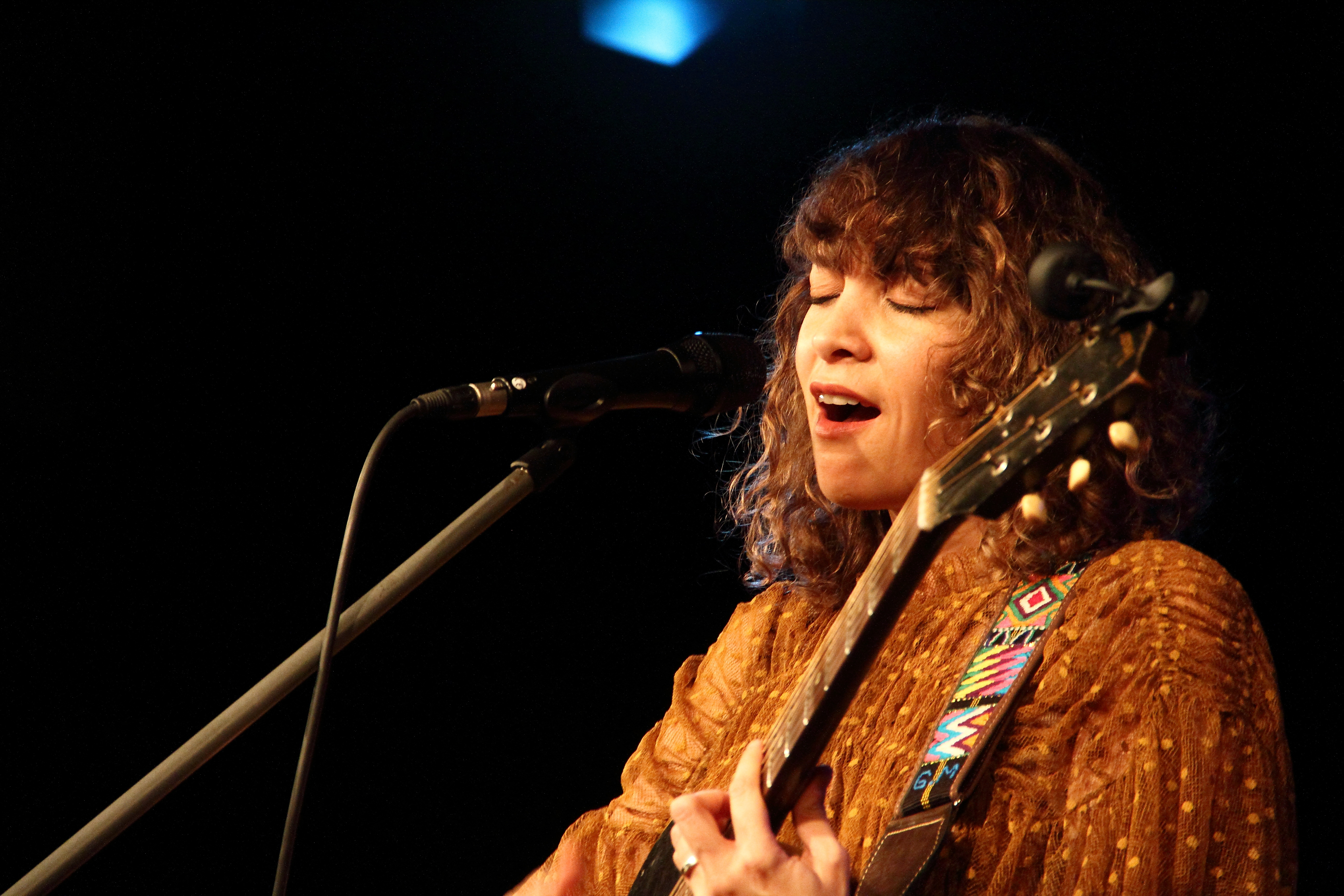 Gaby Moreno & Band in concert at KULT, Niederstetten.